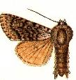 PLATE CXXVII.